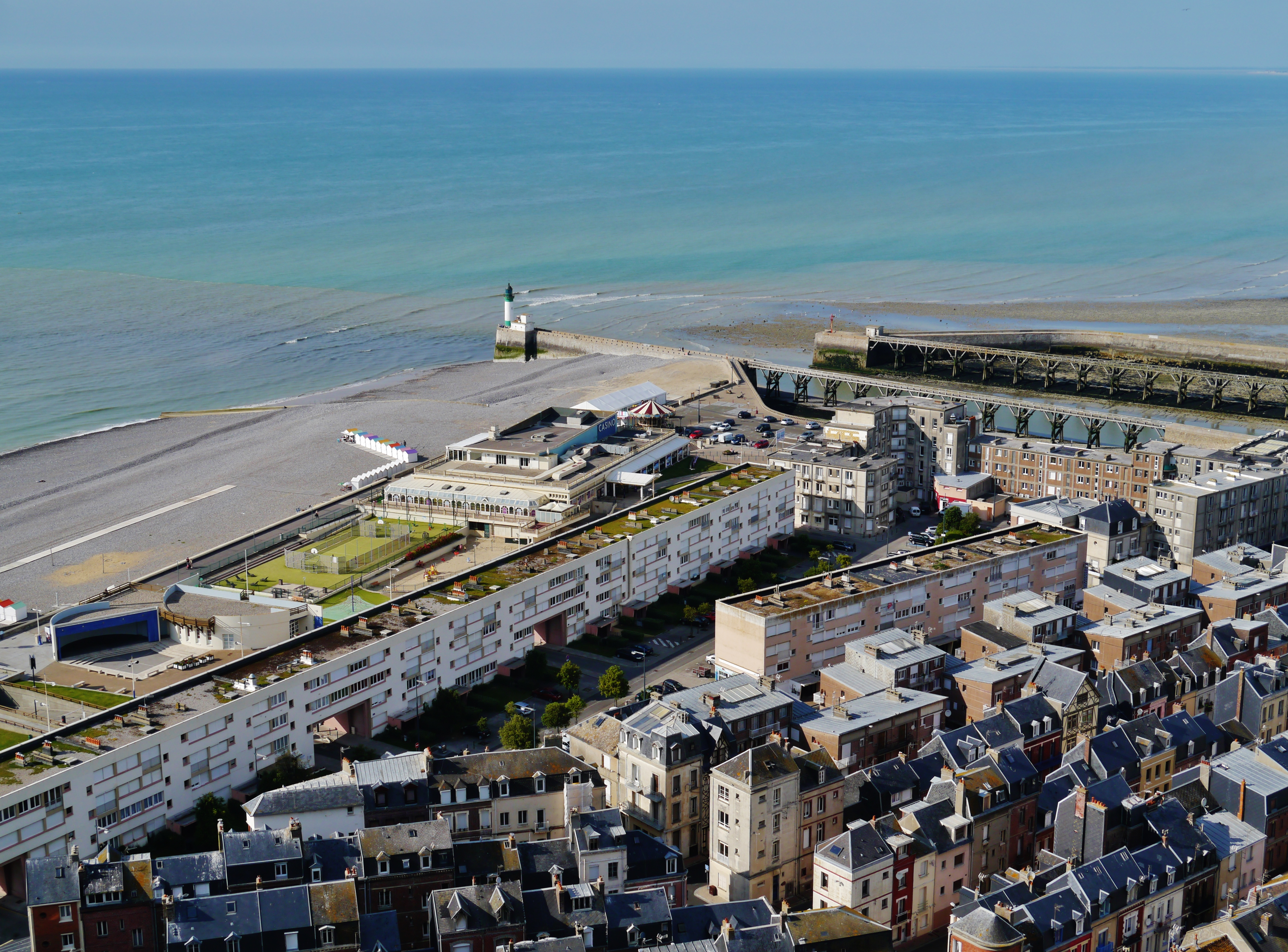 View from the Cliffs of Le Tréport to Le Tréport, Le Tréport, Department of Seine-Maritime, Region of Normandy (former Upper Normandy), France